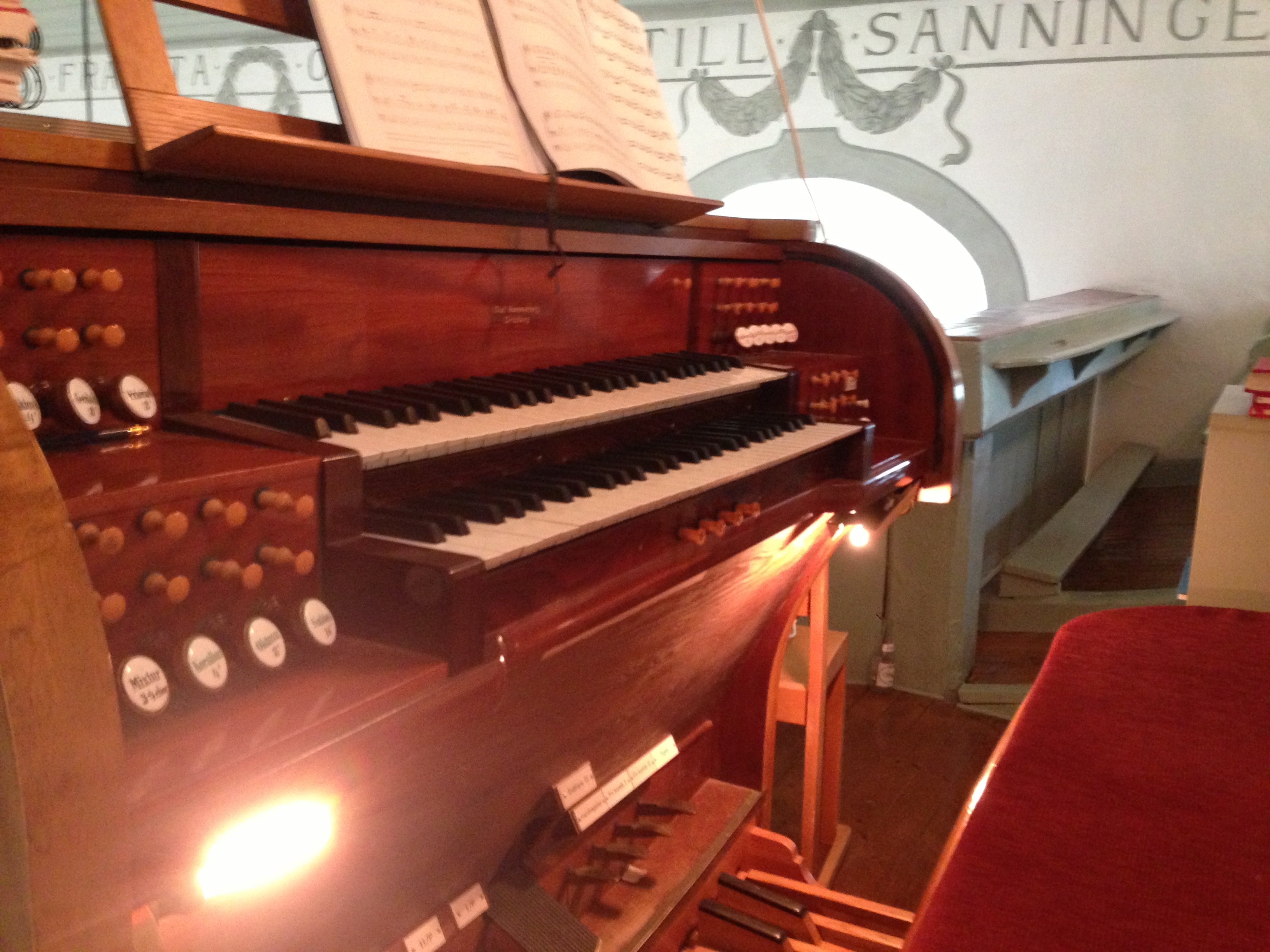 Organ in Stenåsa kyrka, Öland, Sweden